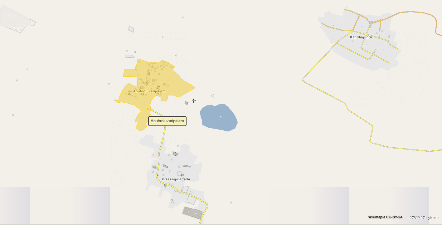 Anubroluvaripalem also known as Anubroluvari Palem or Anubrolu Vari Palem